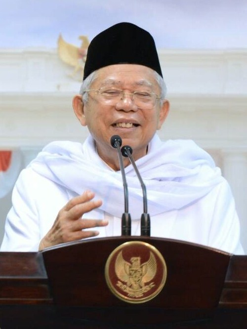 Ma'ruf Amin is an Indonesian Islamic scholar, seventh leader of the Indonesian Ulema Council as well as the tenth chairman of the advisory council of Nahdlatul Ulama.